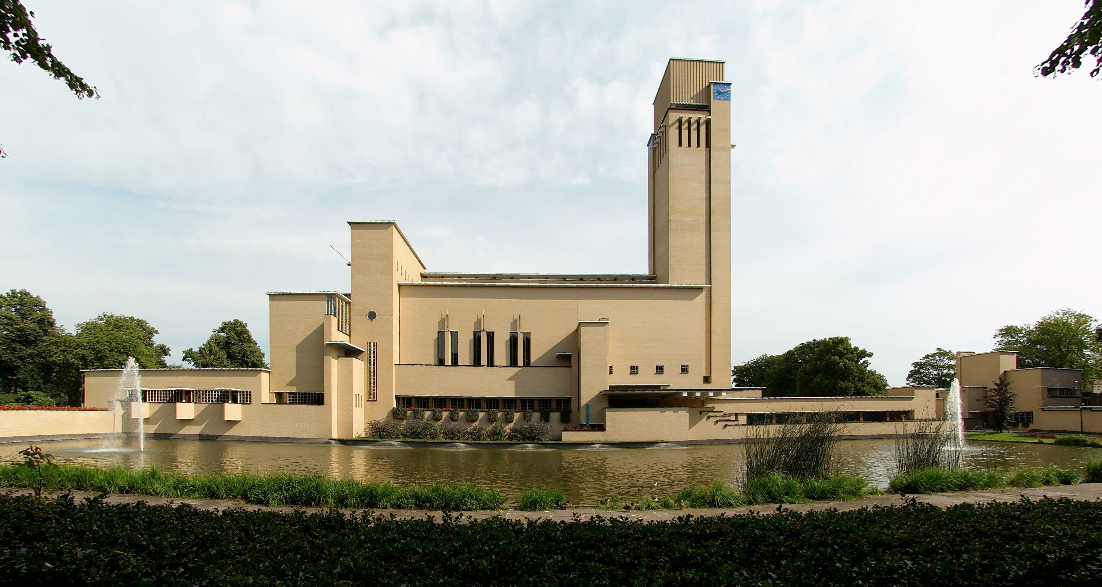 City Hall, Hilversum, The Netherlands, 1928-1931. Designed by Willem Marinus Dudok. Looking direction North.